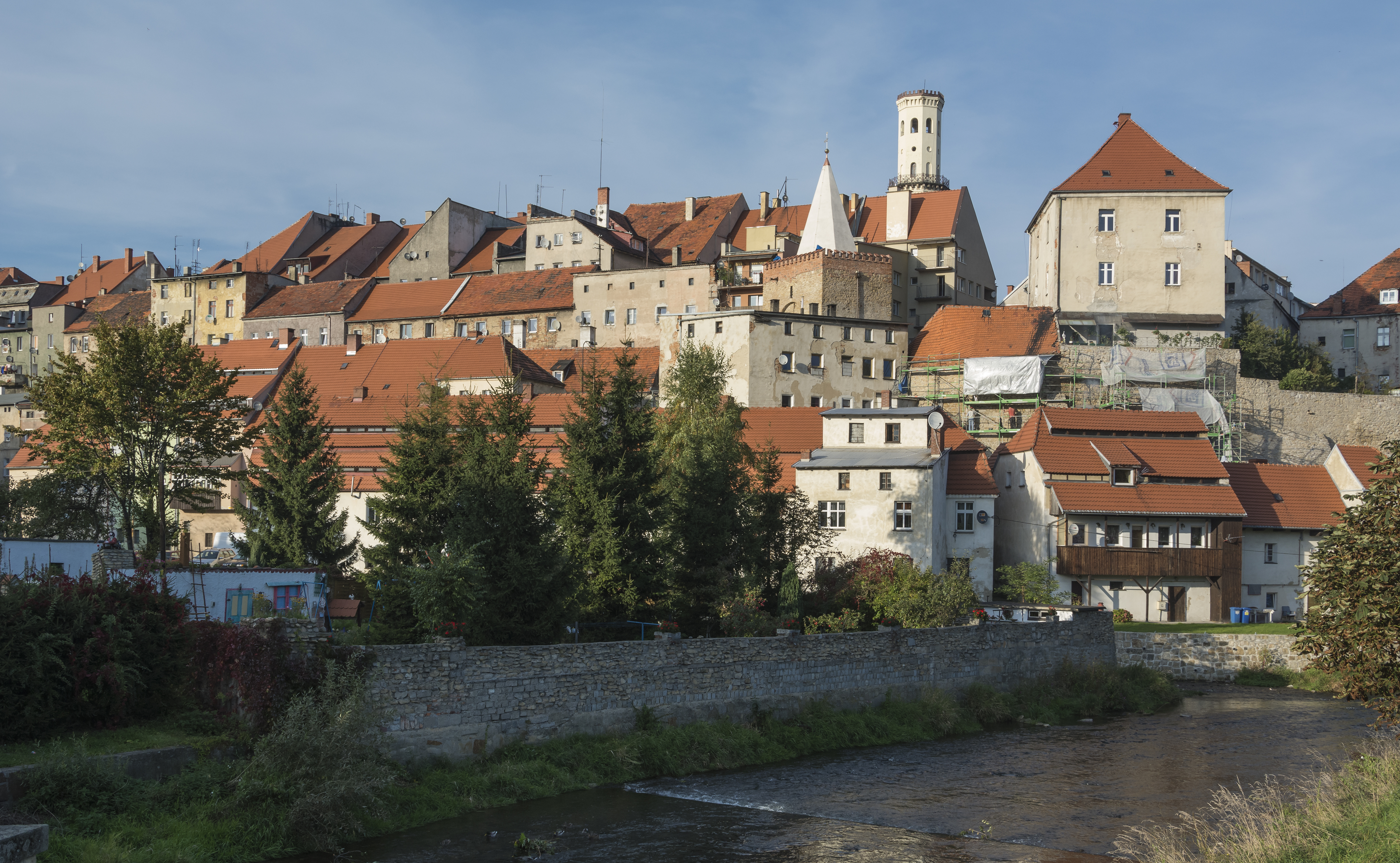 Historic centre of Bystrzyca Kłodzka